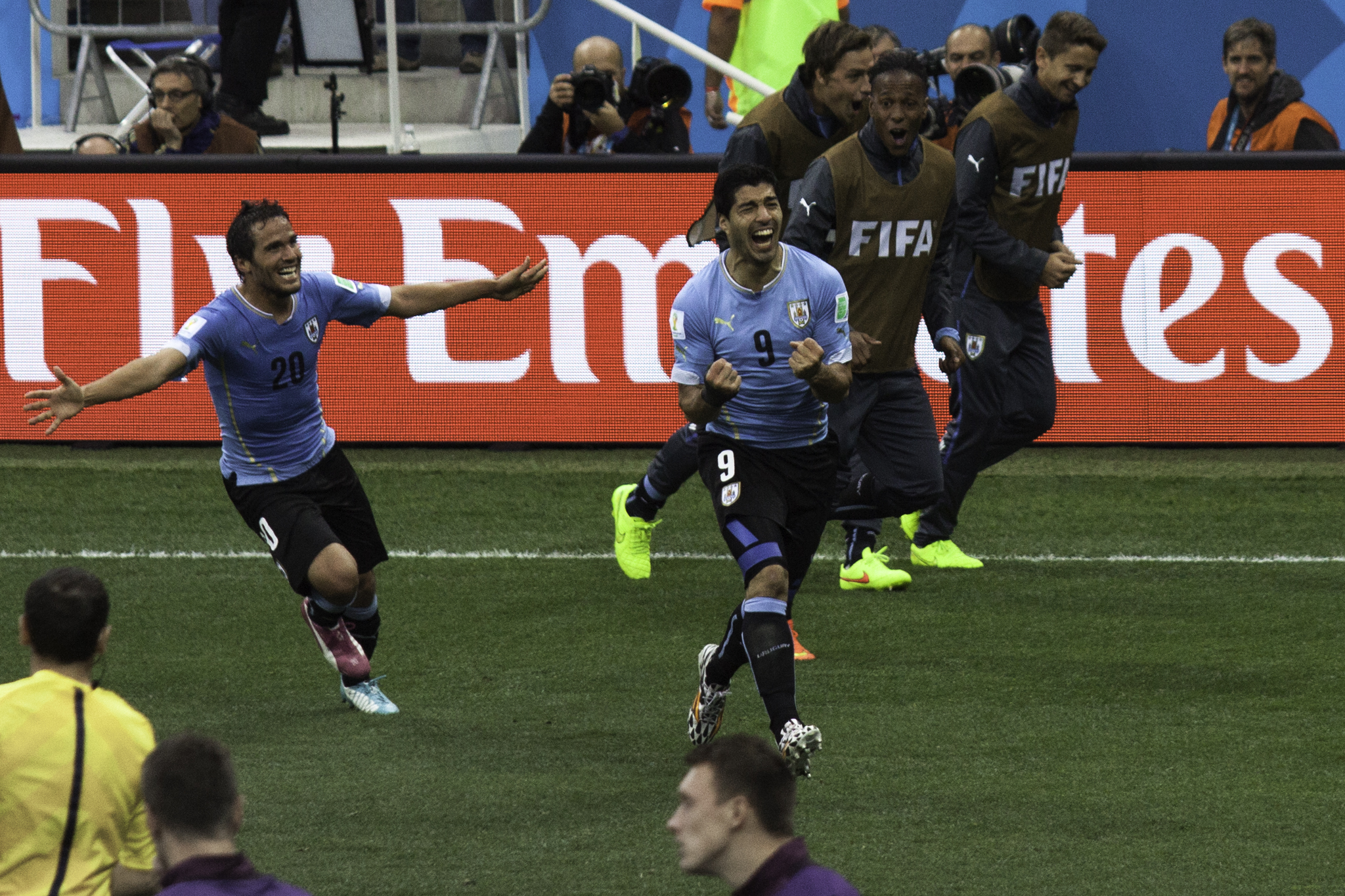 Uruguay and England match at the FIFA World Cup 2014-06-19, Arena Corinthians, São Paulo, Brazil.